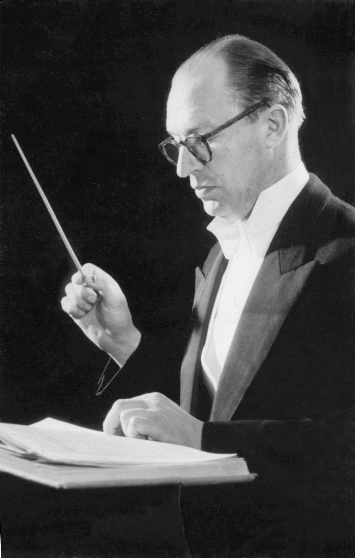 Aloys Fleischmann, composer, professor of music at University College Cork, conductor of the Cork Symphony Orchestra, performing Tchaikovsky's Sleeping Princess with the Cork Ballet Company in 1958